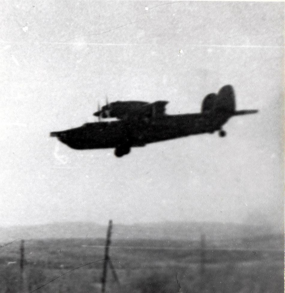 Be-12 landing at the airfield Severomorsk-2. The 70s.